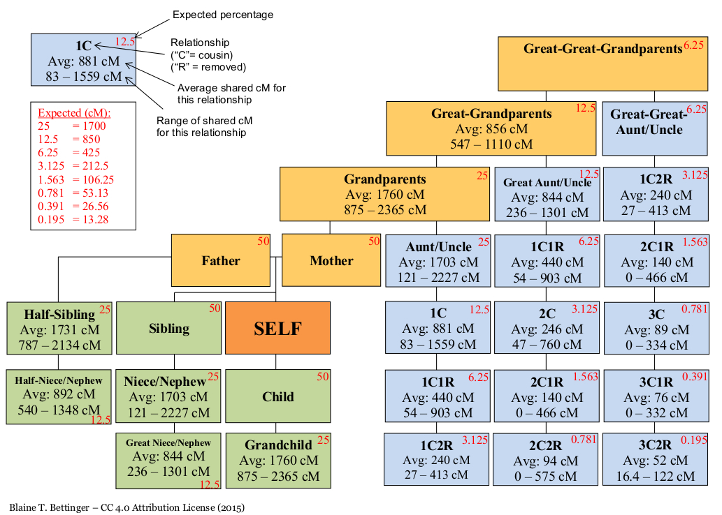 Chart showing DNA shared by relatives